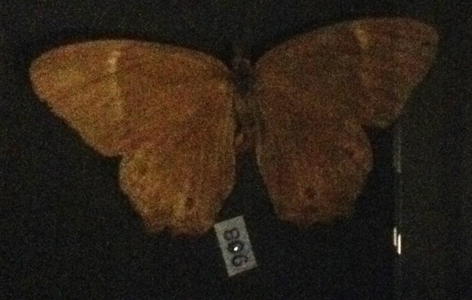 Beaty Biodiversity Museum LocationVancouver, British Columbia, CanadaCoordinates49° 15′ 48.96″ N, 123° 15′ 05.04″ W WebsiteBeaty Biodiversity Museum